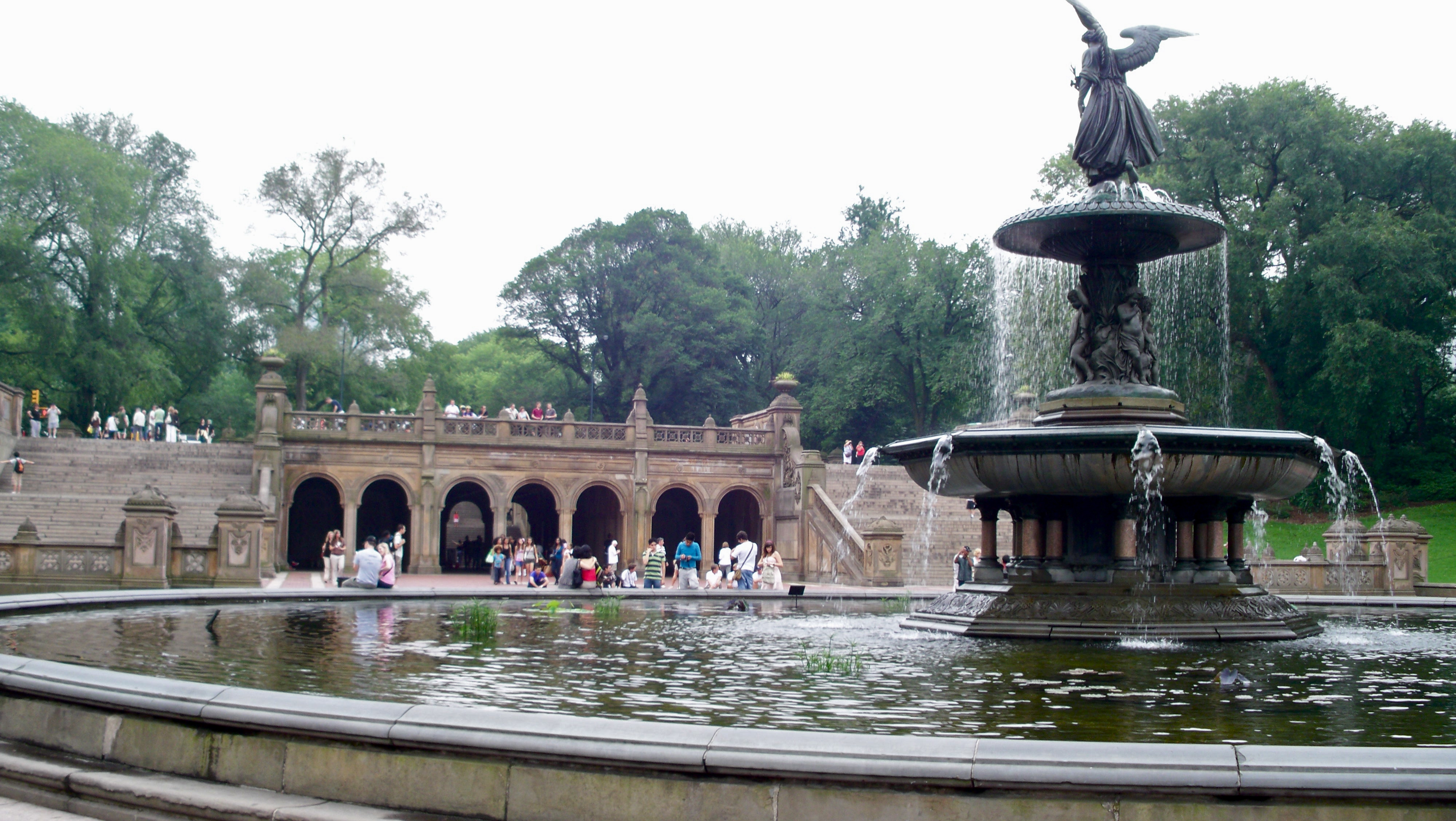 Angel of the Waters Fountain at Bethesda Terrace in Central Park, Manhattan, NYC